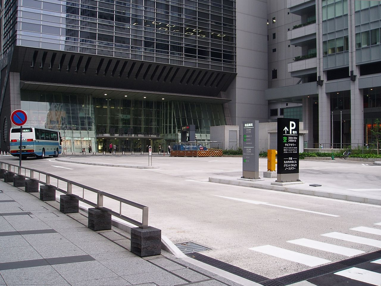 Nihonbashi entrance of Tokyo Sta.